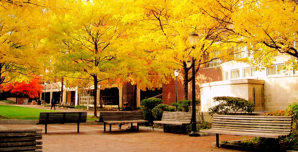 Benches near Vance Hall